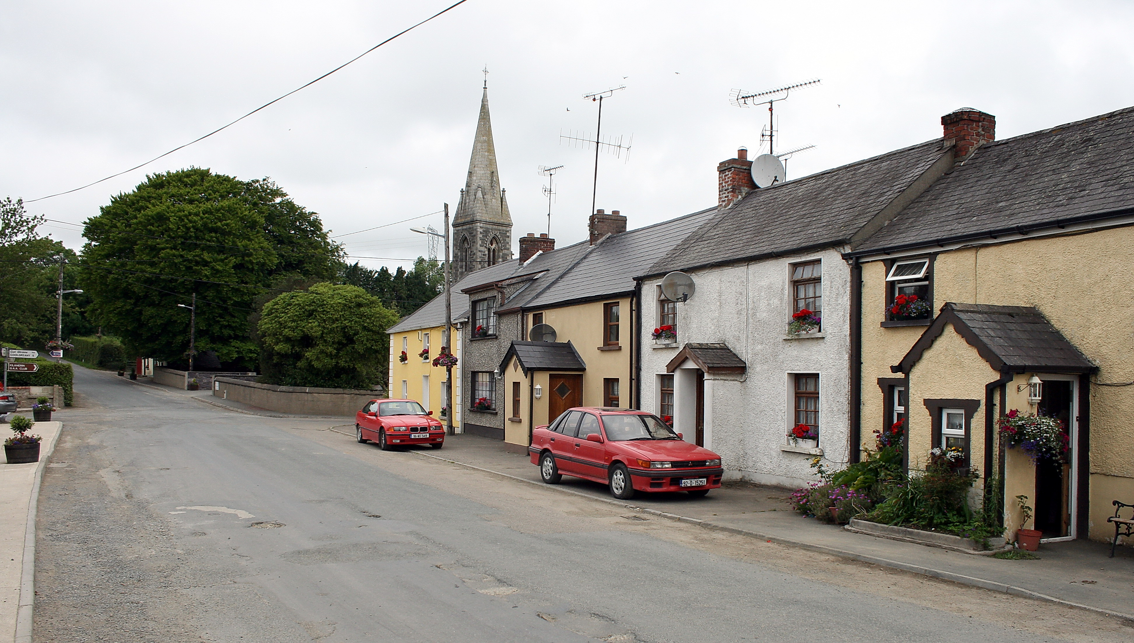 Killiniernin, County Wexford